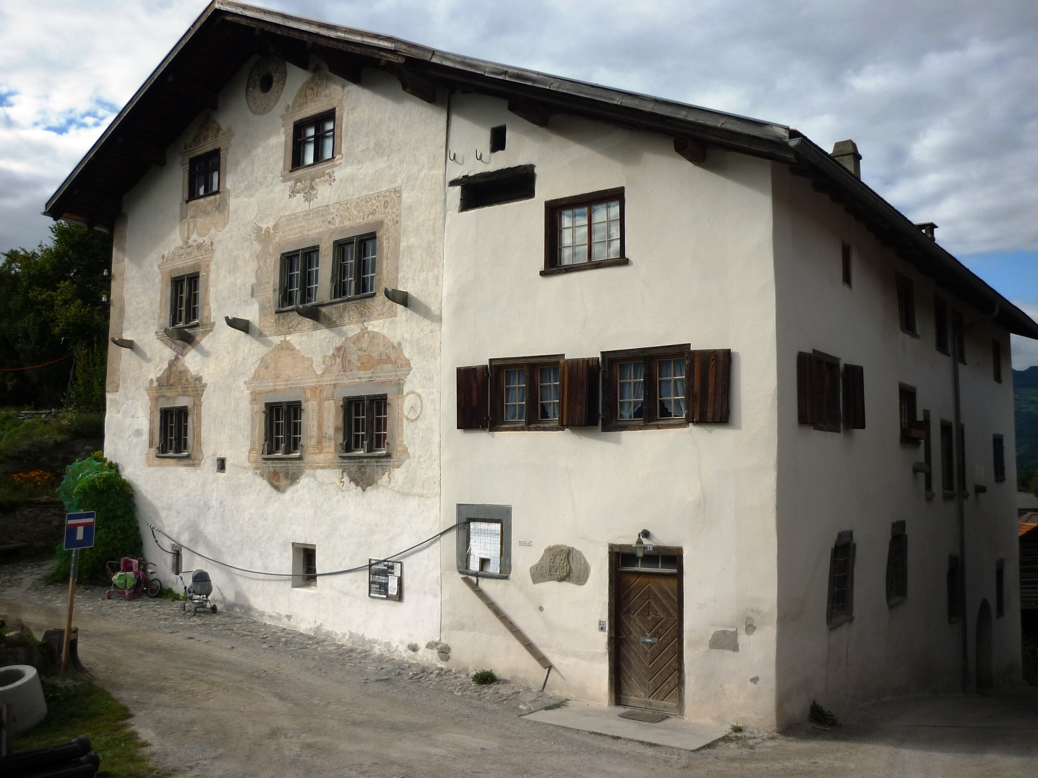 House "Gees", Scharans GR, Switzerland, build 1420